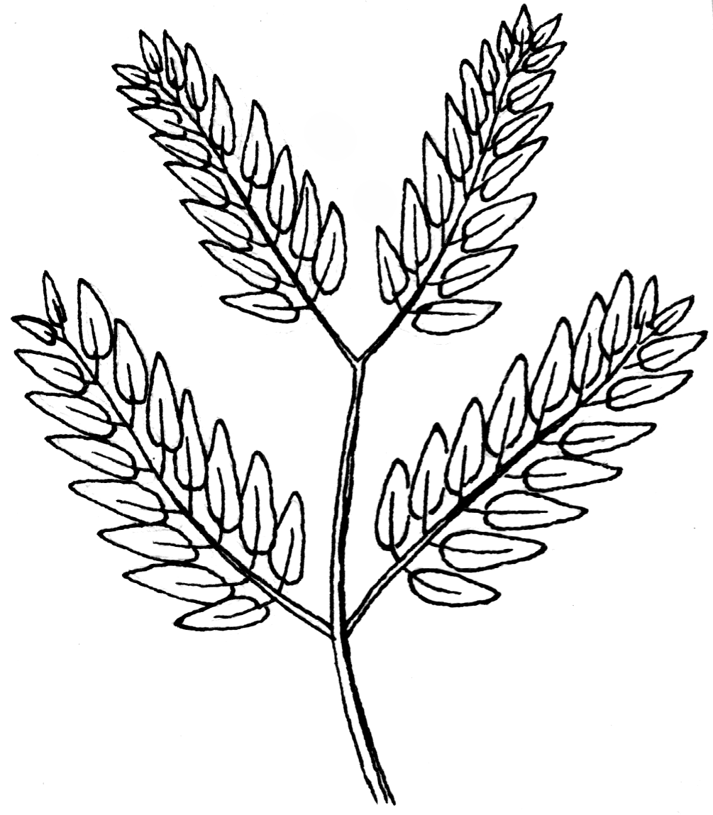 an illustration of bipinnate leaf arrangement 回羽狀複葉